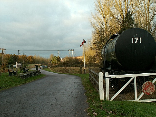 Ruspidge Halt is now the Southern starting point of Cinderford's Linear Park. The Signal semaphore arm is set to 'proceed' (if the wire broke the semaphore arm would revert to the horizontal position, the red lens would then be illuminated by the signal lamp). The Linear Park was once a featureless industrial area covered in railway tracks and sidings. Now it has been reclaimed with a couple of lakes, a run of poplar trees and runs North almost as far as the old Northern United Colliery workings. Grizzled and Dingy Skipper butterflies can be seen in season.